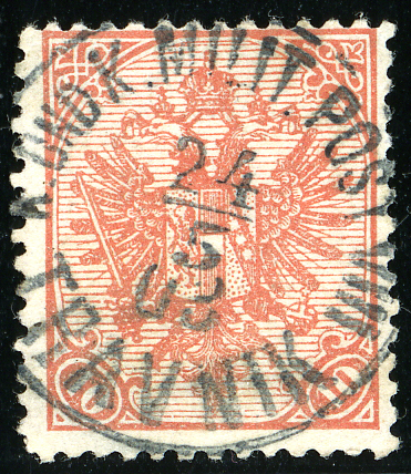 Stamp of Bosnia and Herzegovina, 10 kreuzer issue 1900, cancelled K und K MILIT. POST VIII - TRAVNIK in 1903.